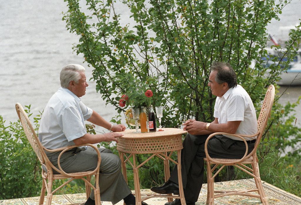 “Yeltsin and Shaimiyev Talk Together”. Russian President Boris Yeltsin (left) and Tatarstan's President Mintimer Shaimiyev (right) talking together during Yeltsin's working trip on the motorship "Rossiya" down the Volga.